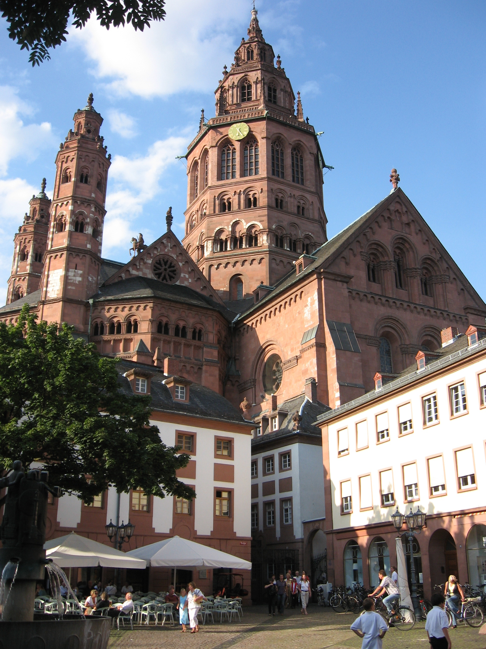 Mainz Cathedral